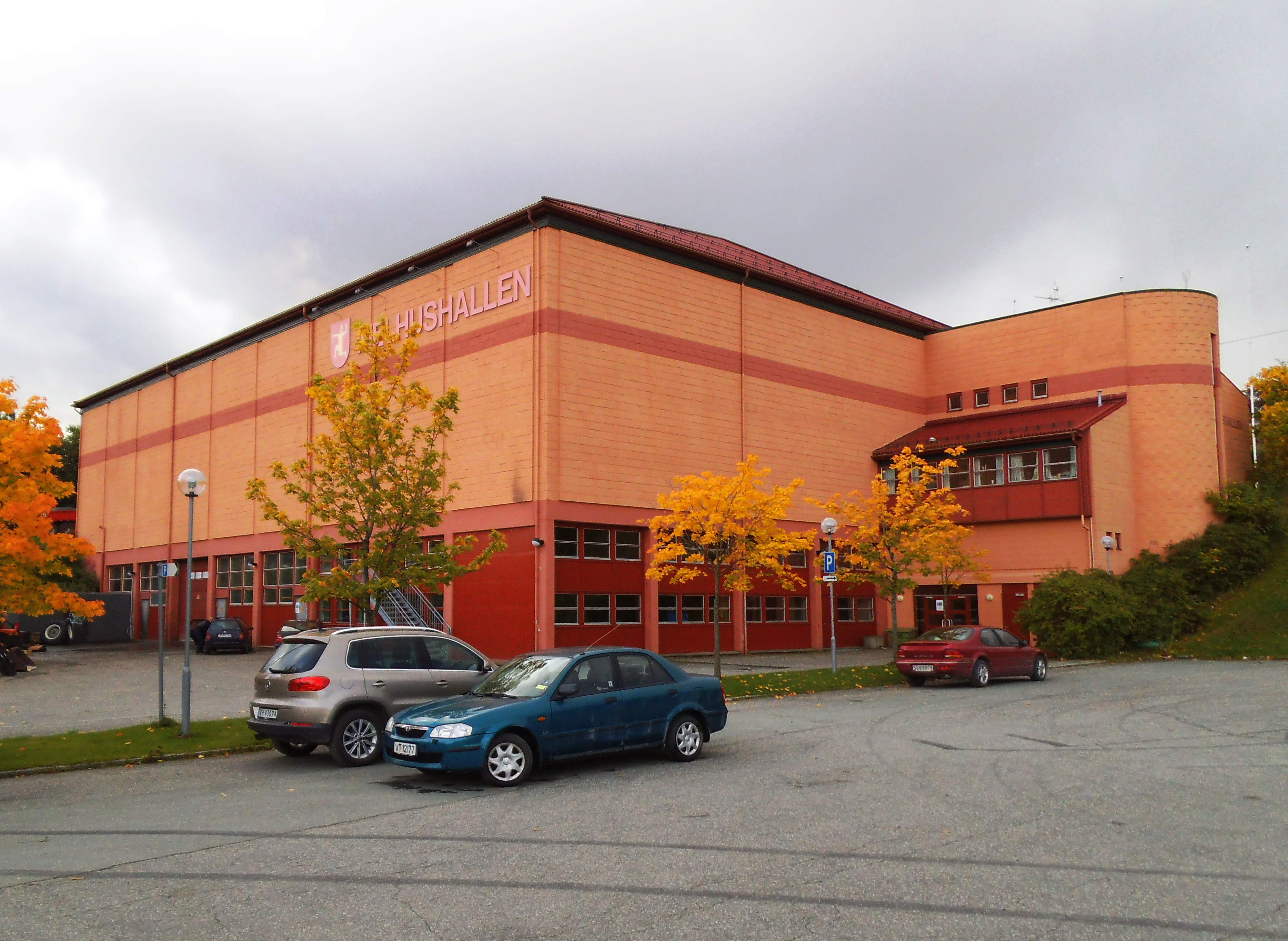 Melhushallen, an indoor sports arena in Melhus, Norway. The photo is from September 2012.